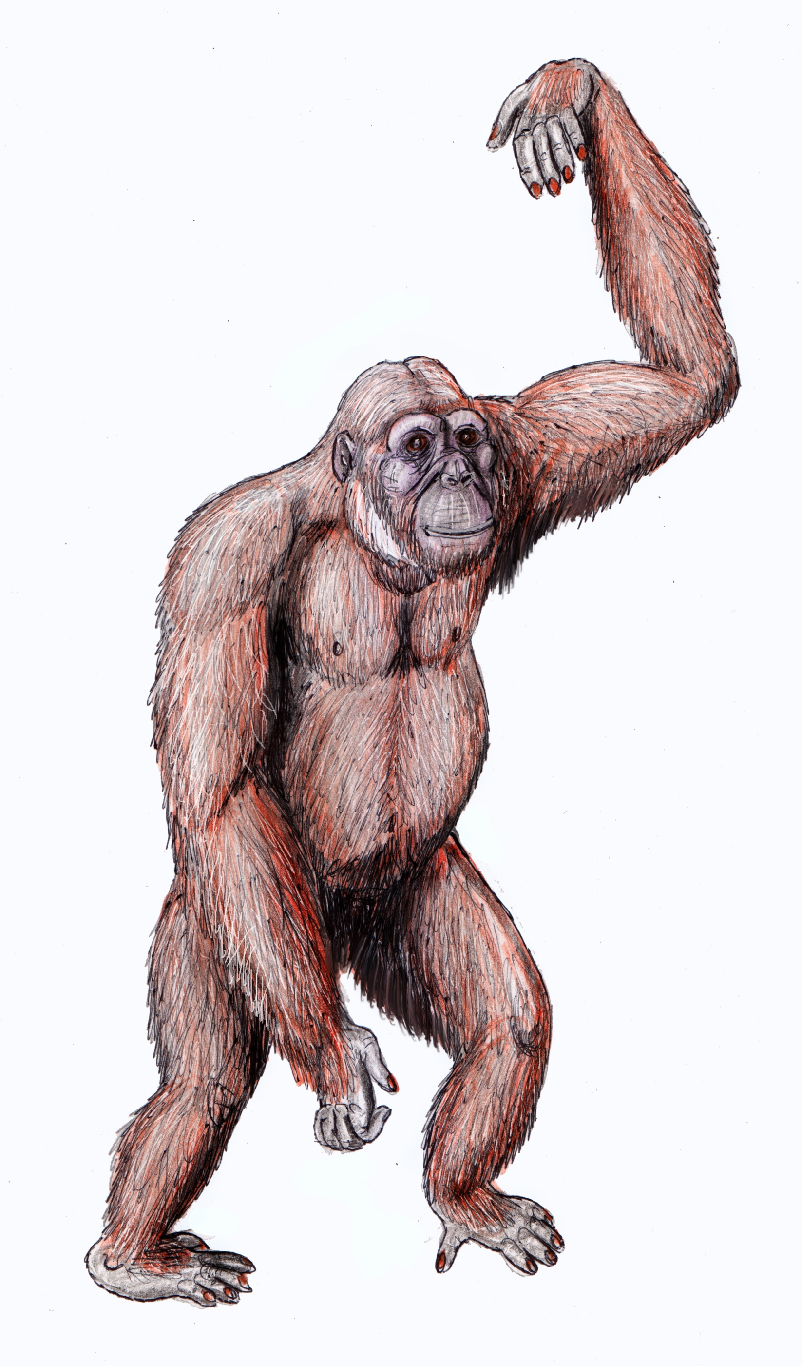 Dryopithecus fontani, from Late Miocene of Eurasia